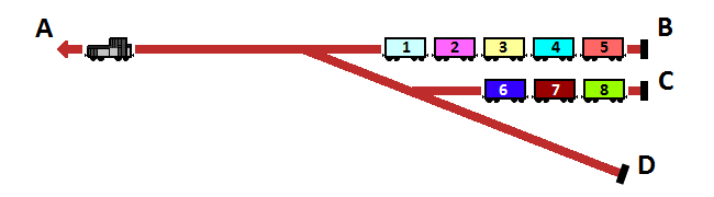 Inglenook Sidings puzzle track final position when game is over.